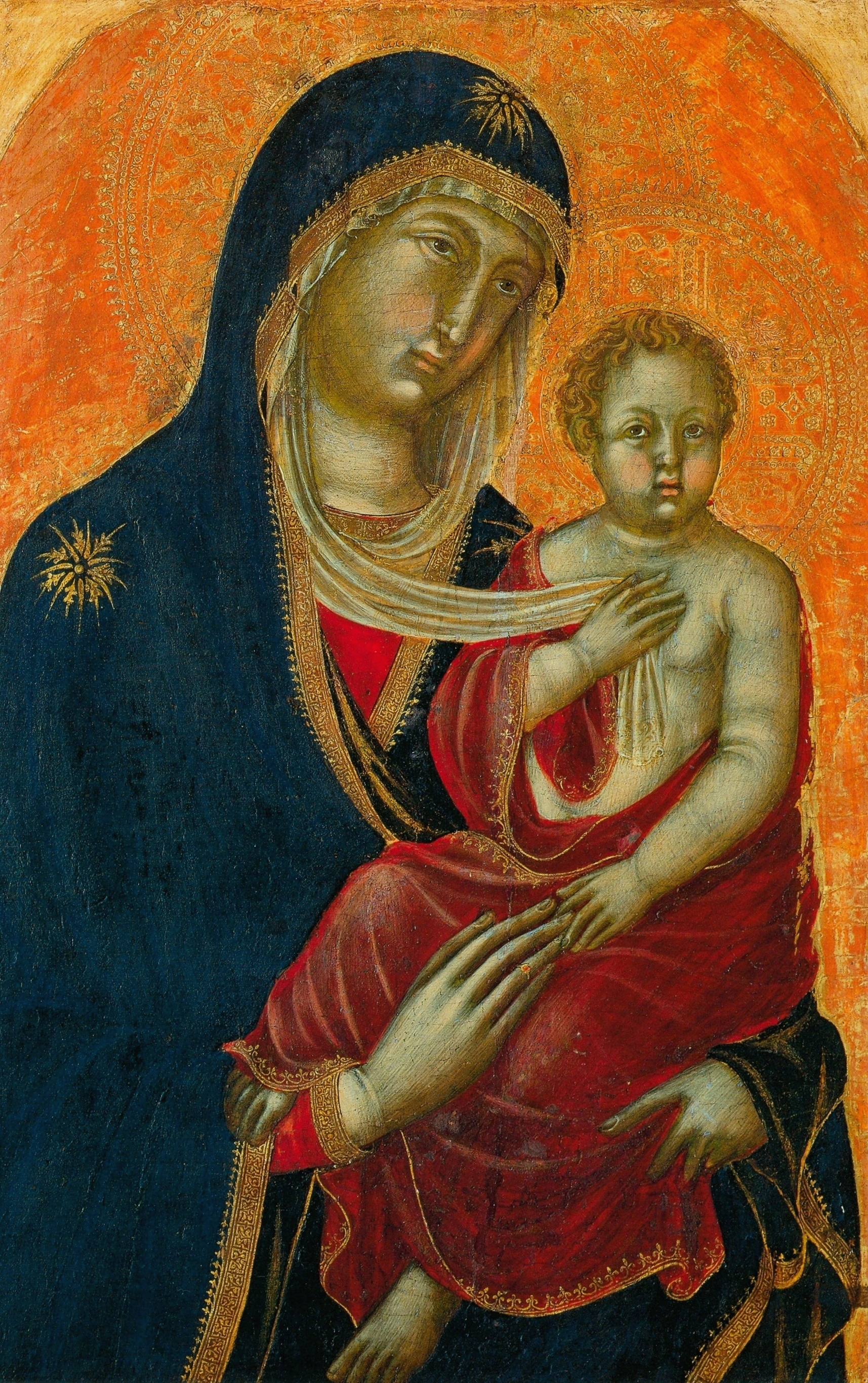 Madonna_and_Child.1340._Vittorio_Cini_Collection,_Venice